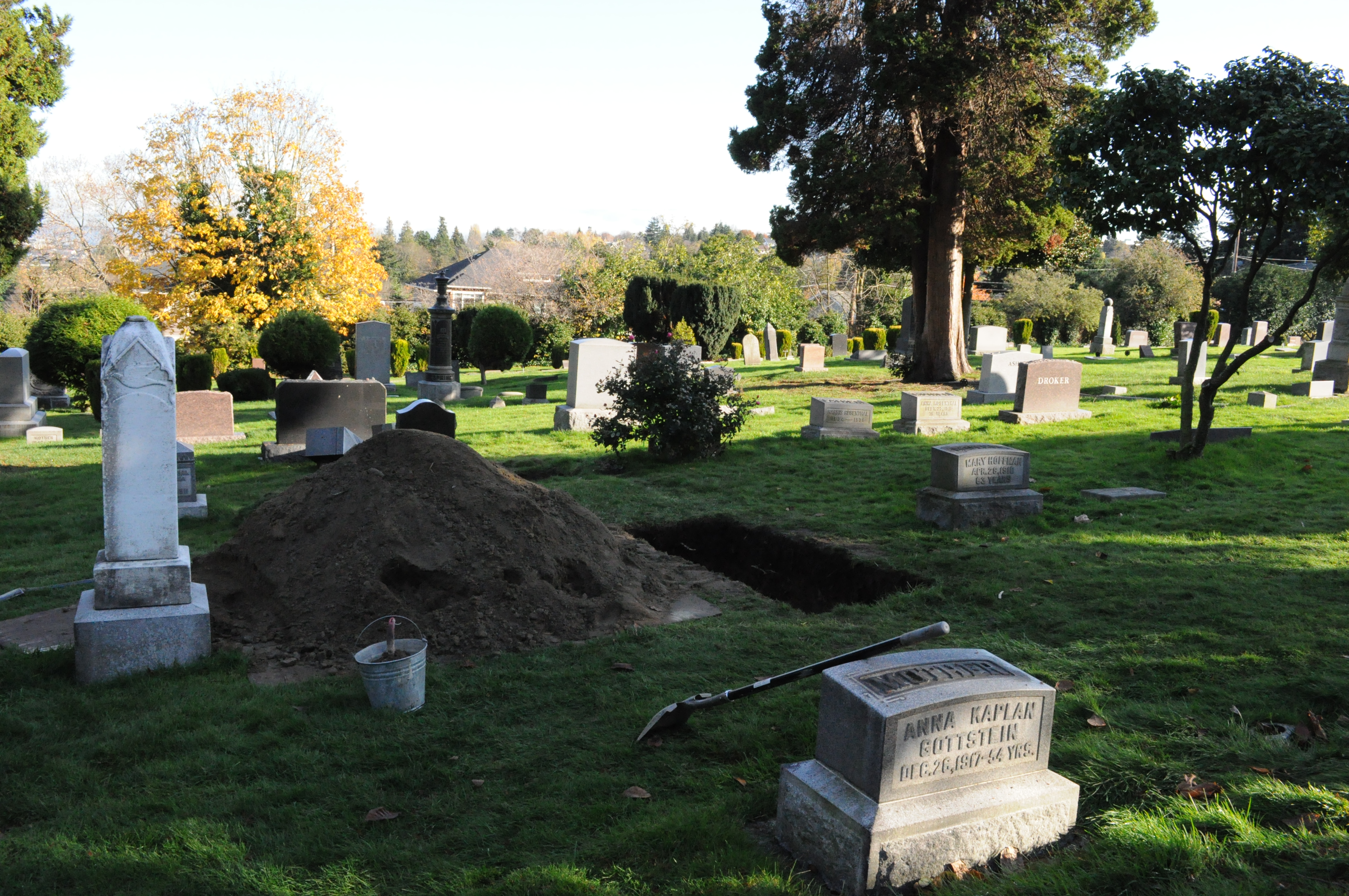 Freshly dug grave, Hills of Eternity Cemetery, a Jewish cemetery within the boundaries of Mt. Pleasant Cemetery, Queen Anne Hill, Seattle, Washington. Hills of Eternity Cemetery is associated with the (Reform Jewish) Temple De Hirsch Sinai.